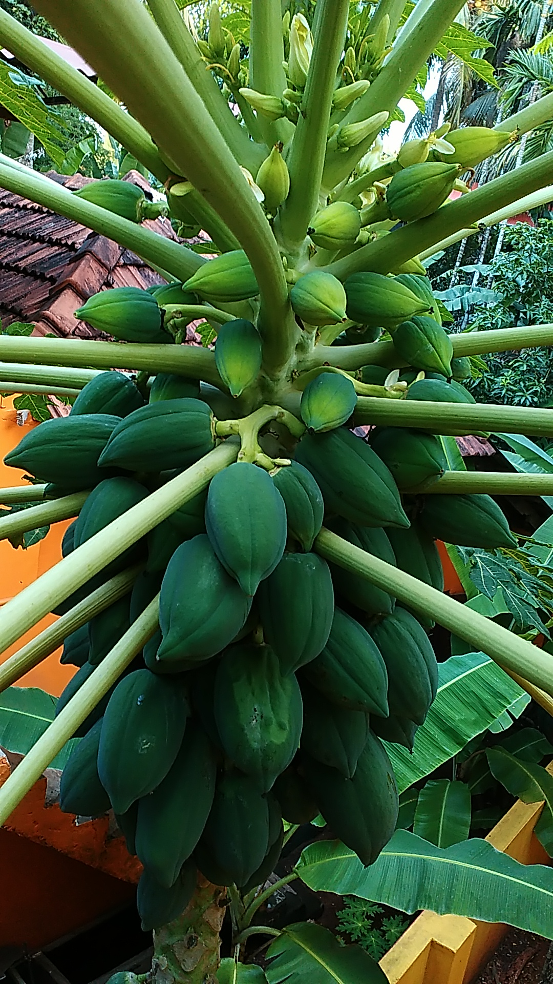 Pappaya